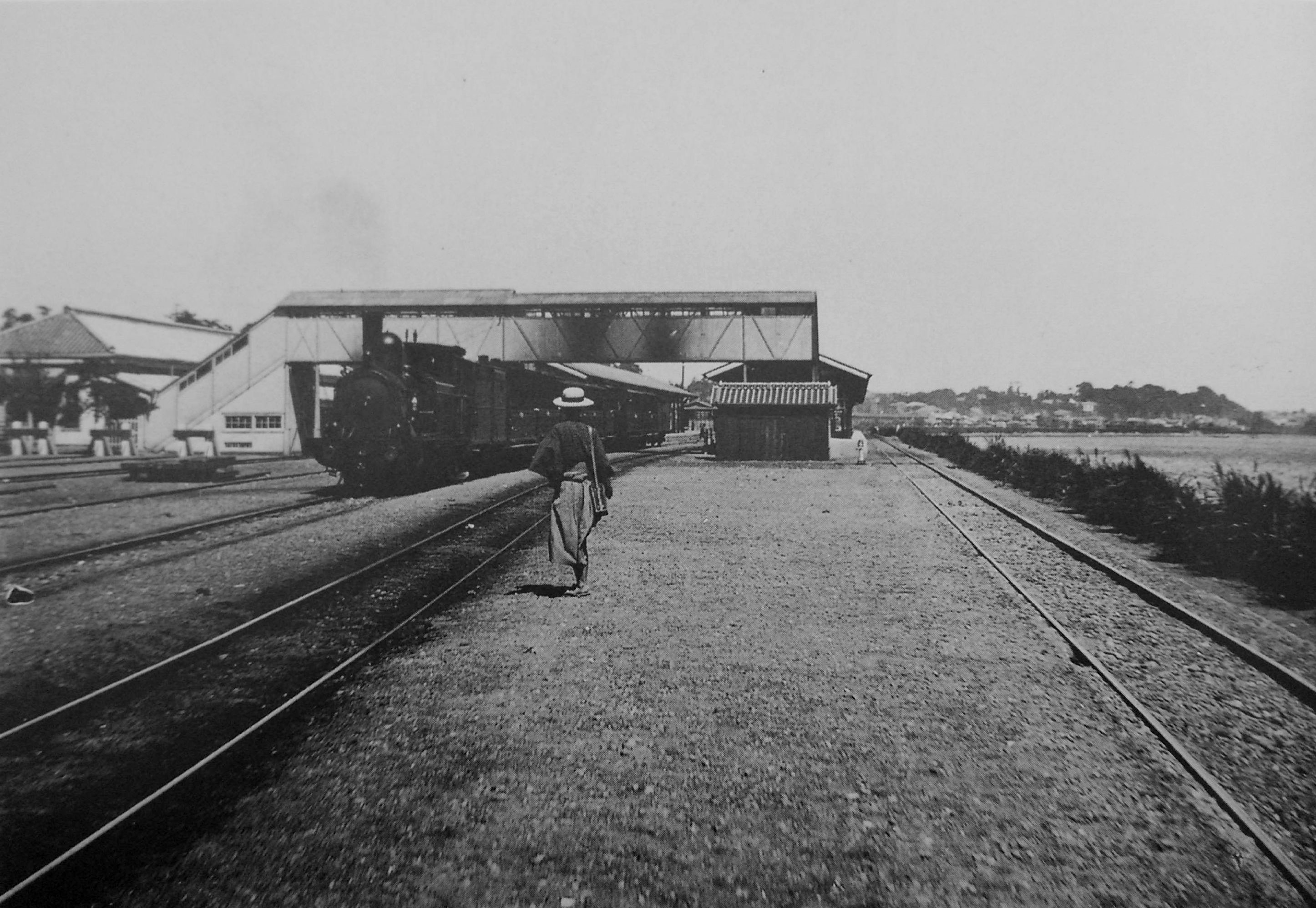 Shinagawa Station circa 1897, with Tokyo Bay visible immediately to the right